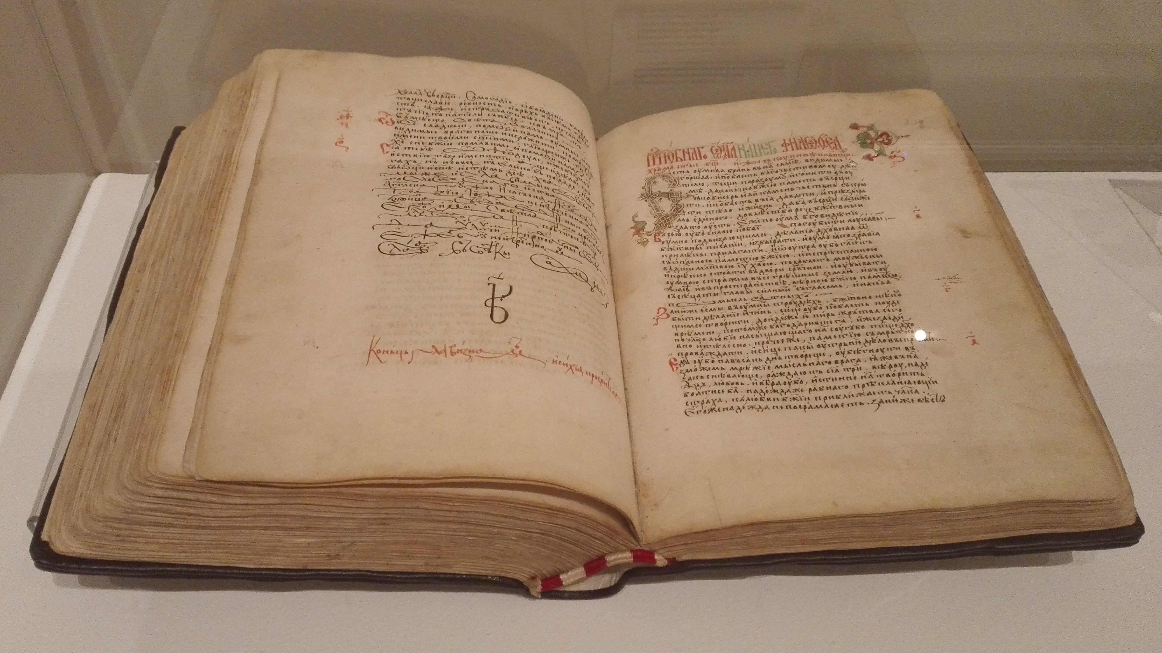 Writings of Ephrem the Syrian and ascetic instructions, from Devič Monastery, mid 15th century. Belgrade, Museum of the Serbian Orthodox Church